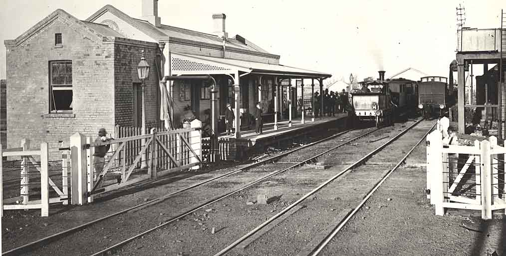 Maitland Railway Station Dated: by 31/12/1877 Digital ID: 17420_a014_a014000778 Rights: We'd love to hear from you if you use our photos. Many other photos in our collection are available to view and browse on our website using Photo Investigator.